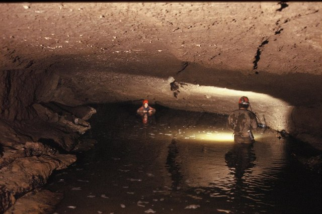 Agen Allwedd Cave Sump Four, Maytime